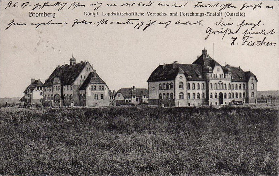 View 1096